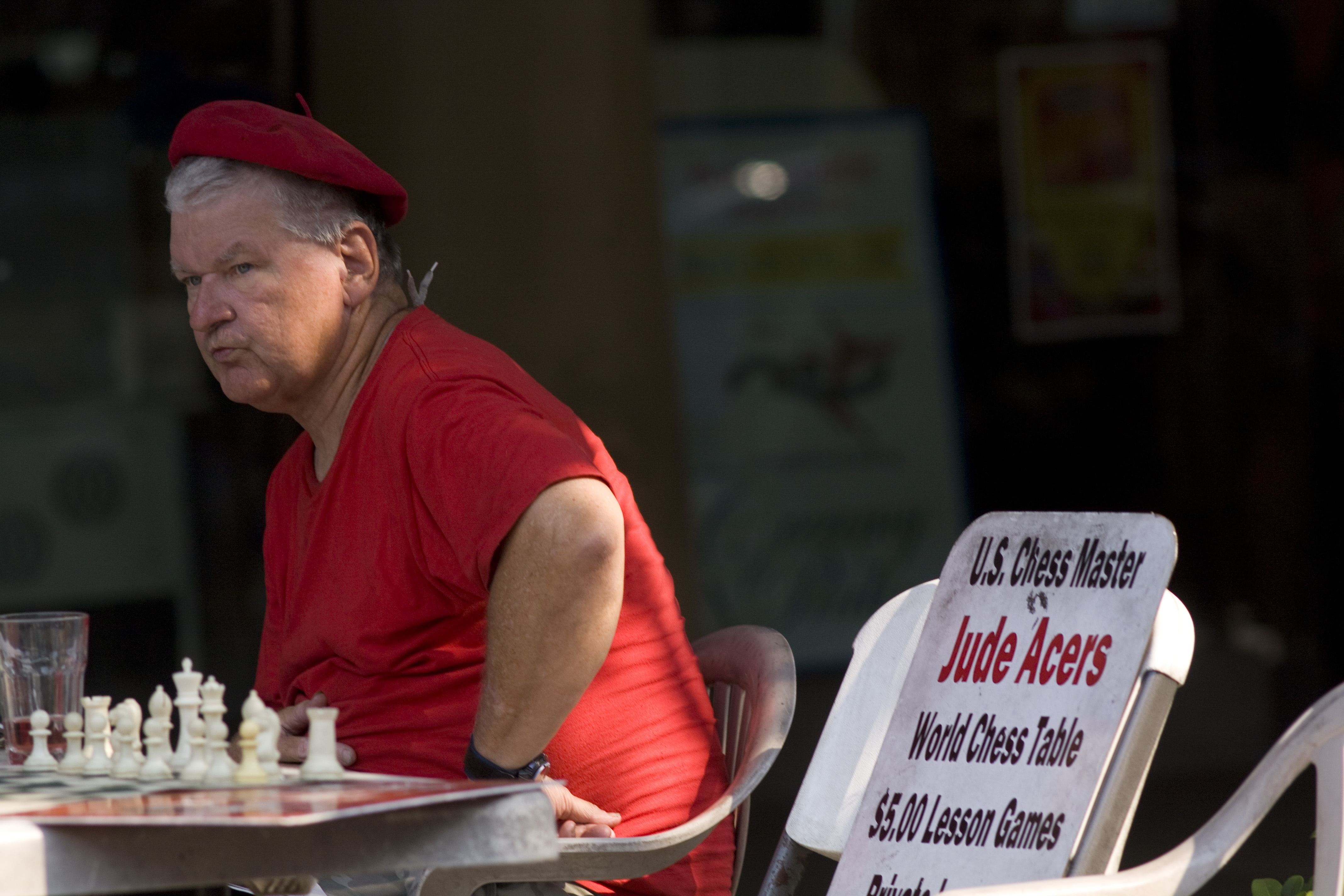 Chess master Jude Acers at his table in the French Quarter of New Orleans.